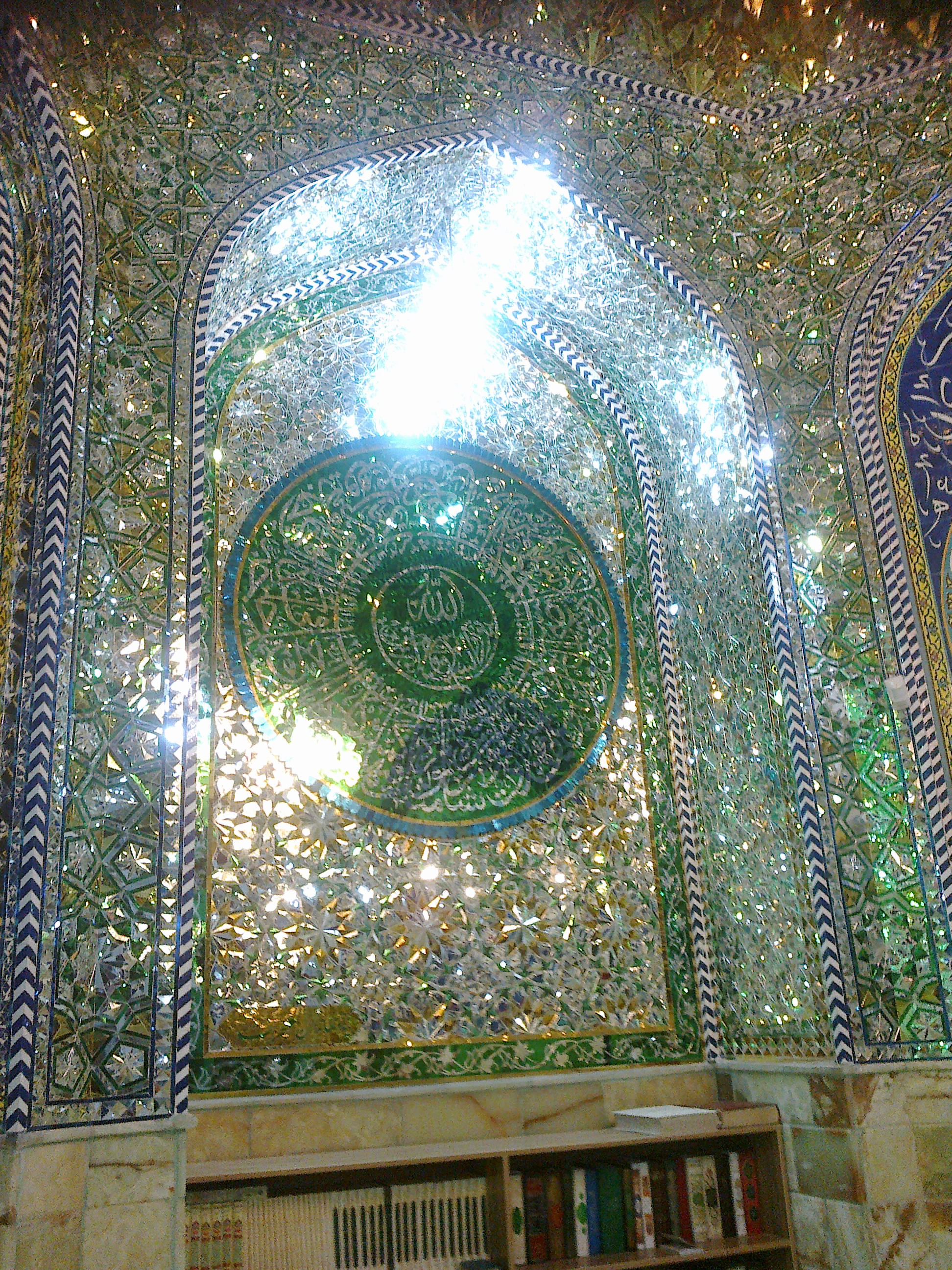 Mirroring art of Imam-descendent Ishmael tomb. One of famous places in Shahriar city, Tehran.